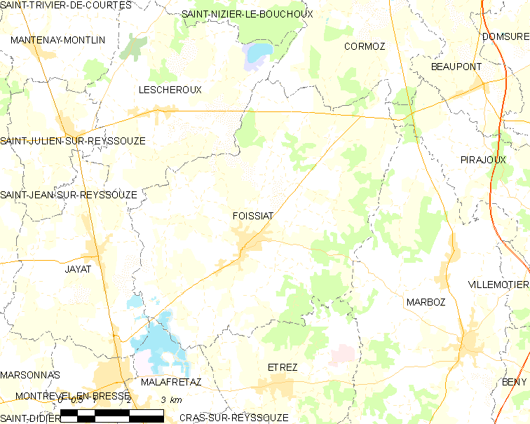 Map of French commune: Foissiat Map commune FR insee code 01163.png